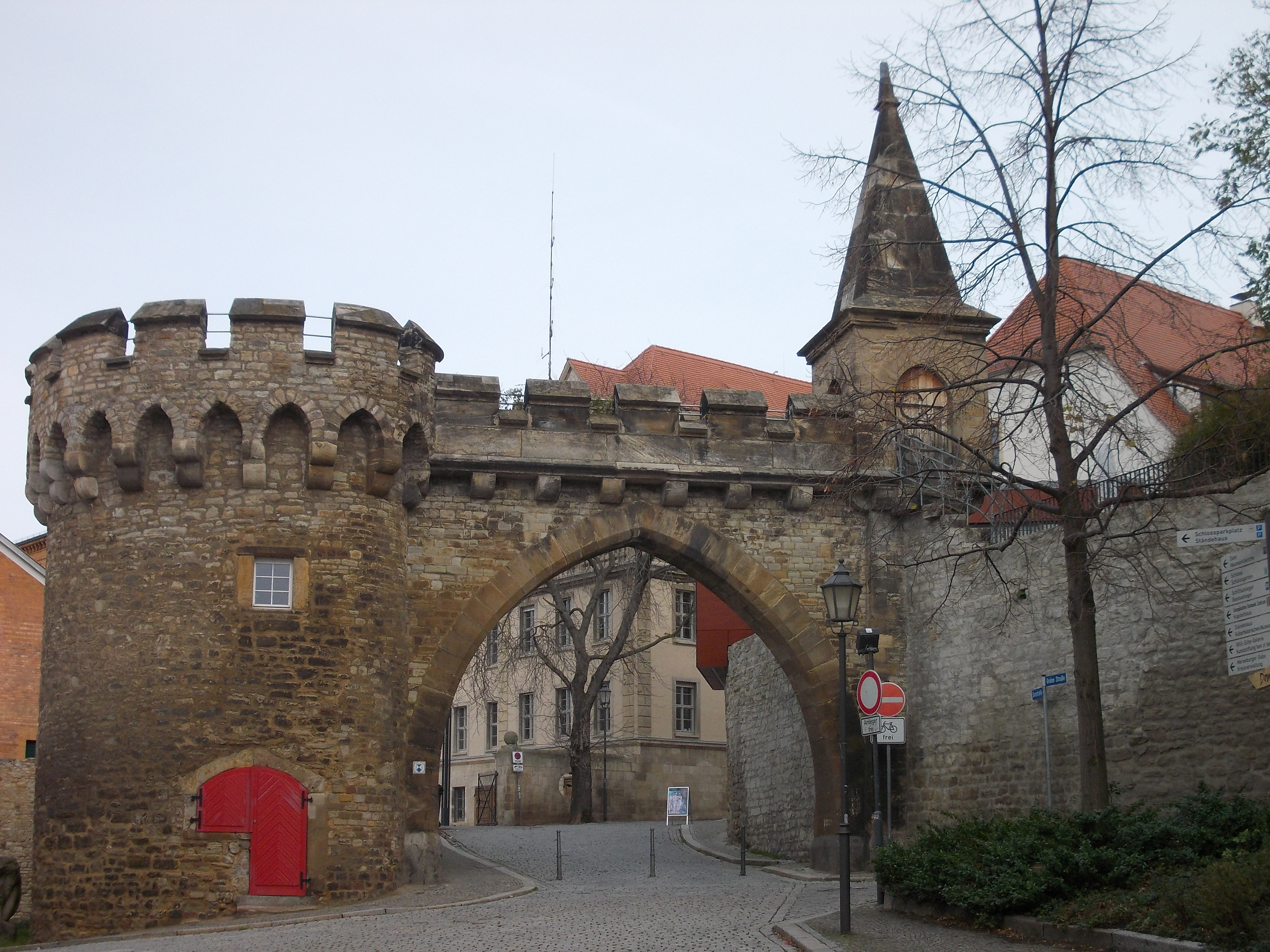 "Crooked Gate" in Merseburg (district: Saalkreis, Saxony-Anhalt)